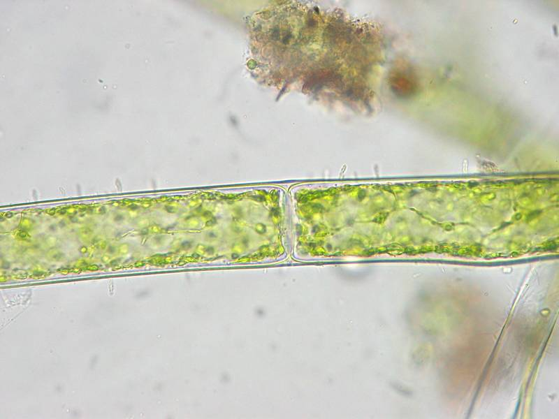 This work is free and may be used by anyone for any purpose. If you wish to use this content, you do not need to request permission as long as you follow any licensing requirements mentioned on this page.